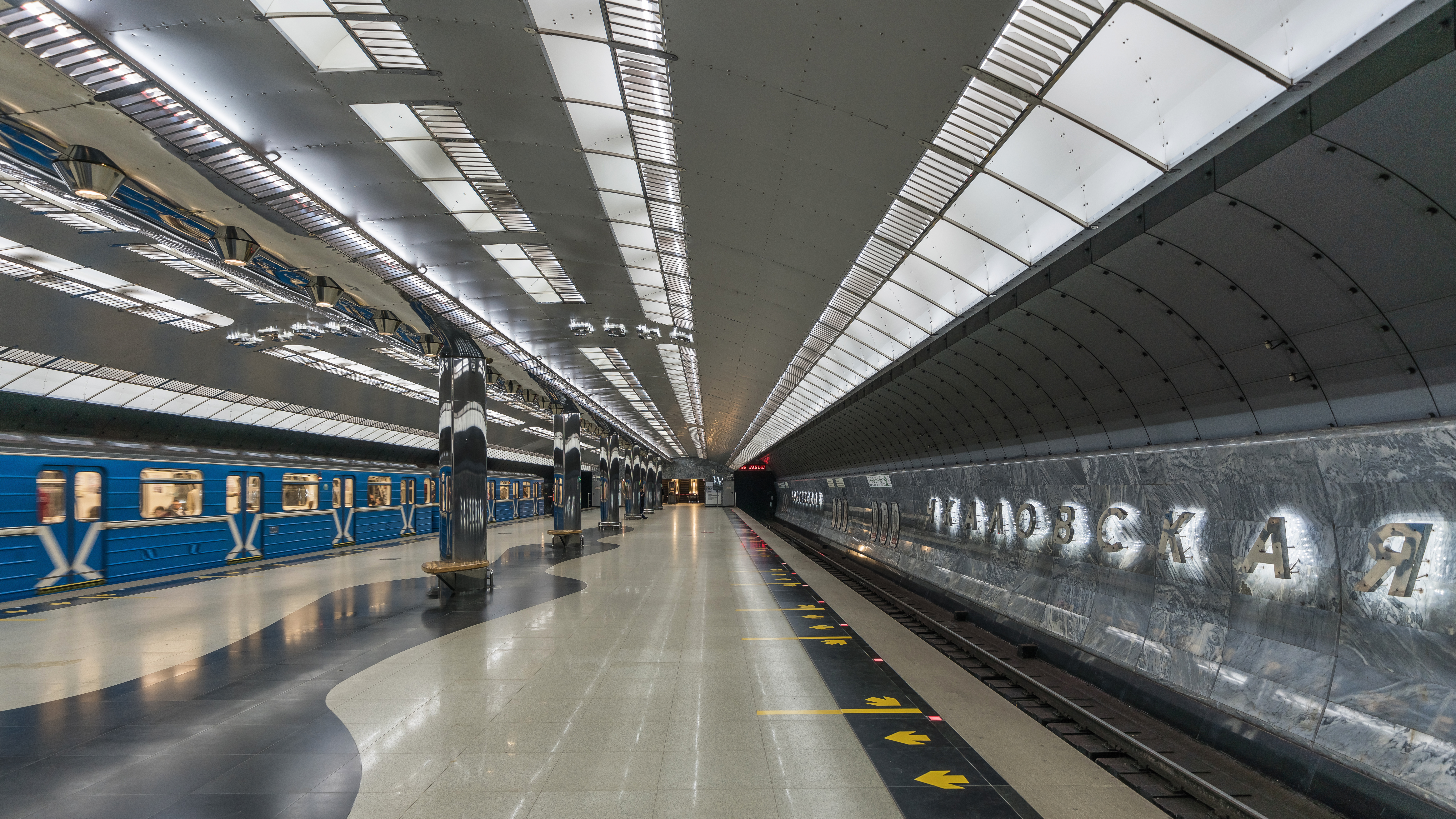 Chkalovskaya metro station in Ekaterinburg, Russia